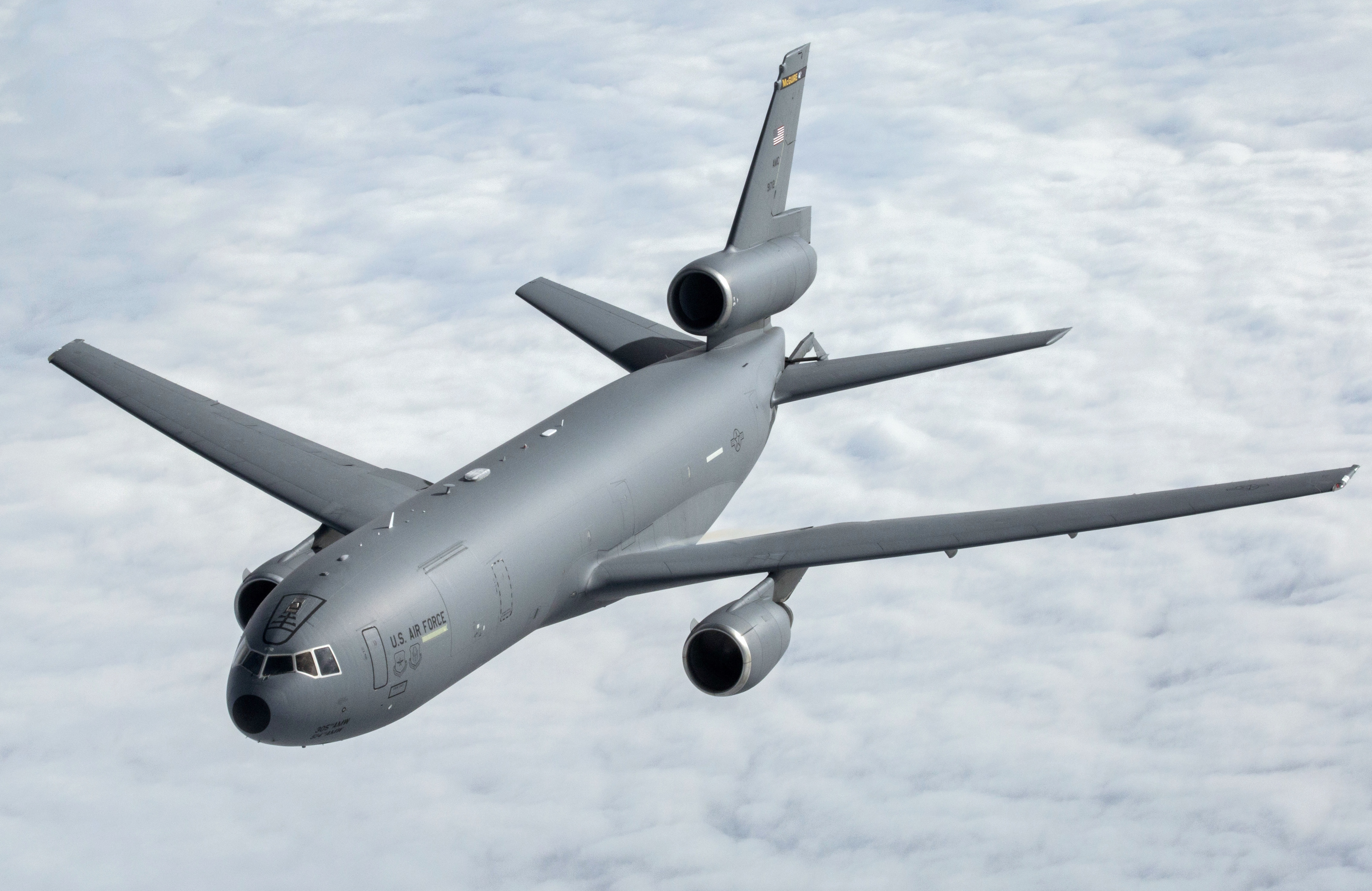 A U.S Air Force KC-10 Extender with the 76th Air Refueling Squadron, 514th Air Mobility Wing, moves away after being refueled by a KC-10 crewed by Reserve Citizen Airmen with the 78th Air Refueling Squadron, 514th Air Mobility Wing, over the Atlantic Ocean, Feb. 14, 2018. The 514th is an Air Force Reserve Command unit located at Joint Base McGuire-Dix-Lakehurst, N.J. (U.S. Air Force photo by Master Sgt. Mark C. Olsen)